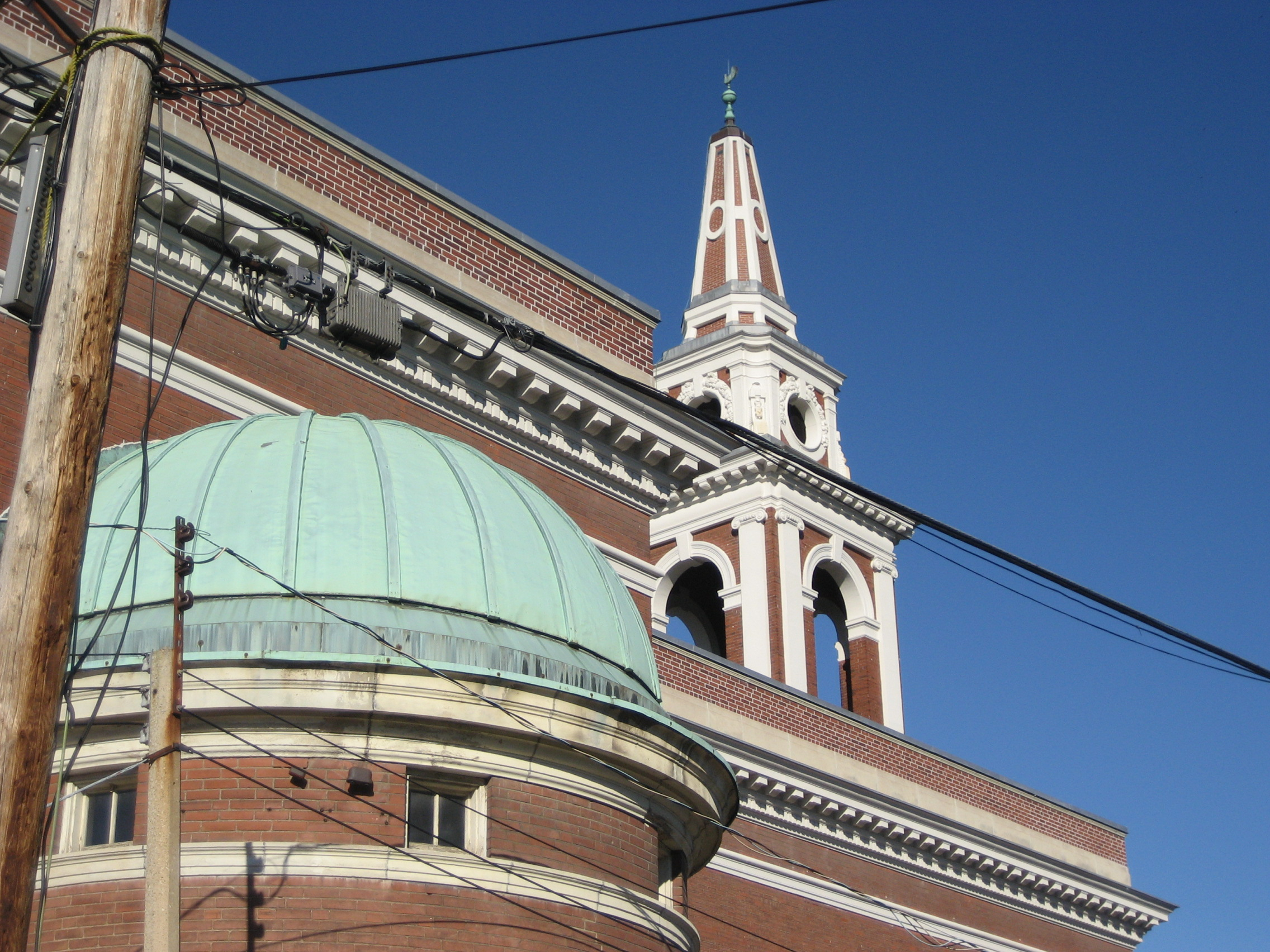 Central Presbyterian Church, Charlton Avenue West, Hamilton